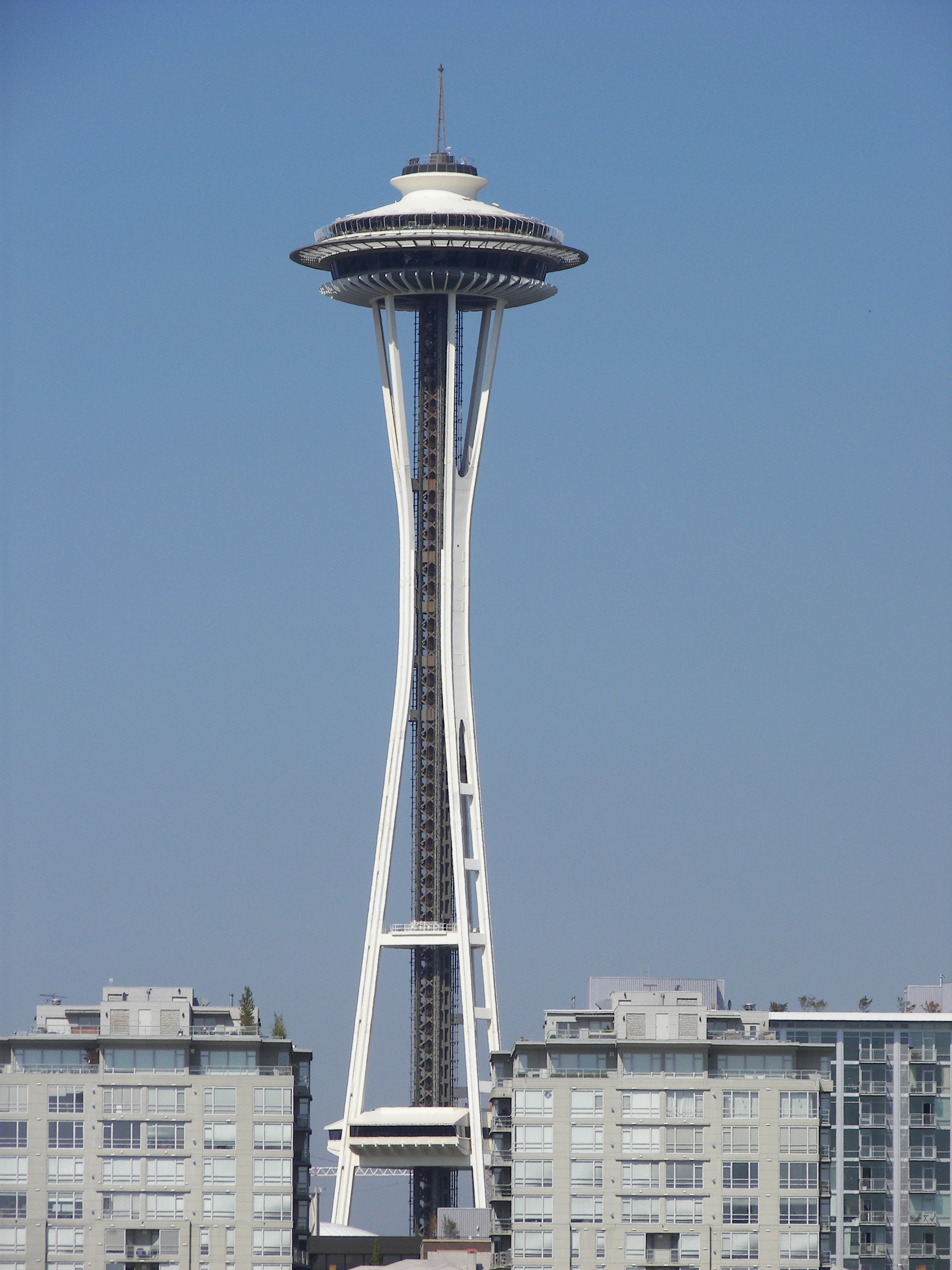 Space Needle from a ship near Pier 66, Seattle.